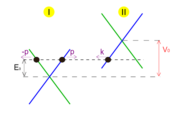 linear dispersion relation